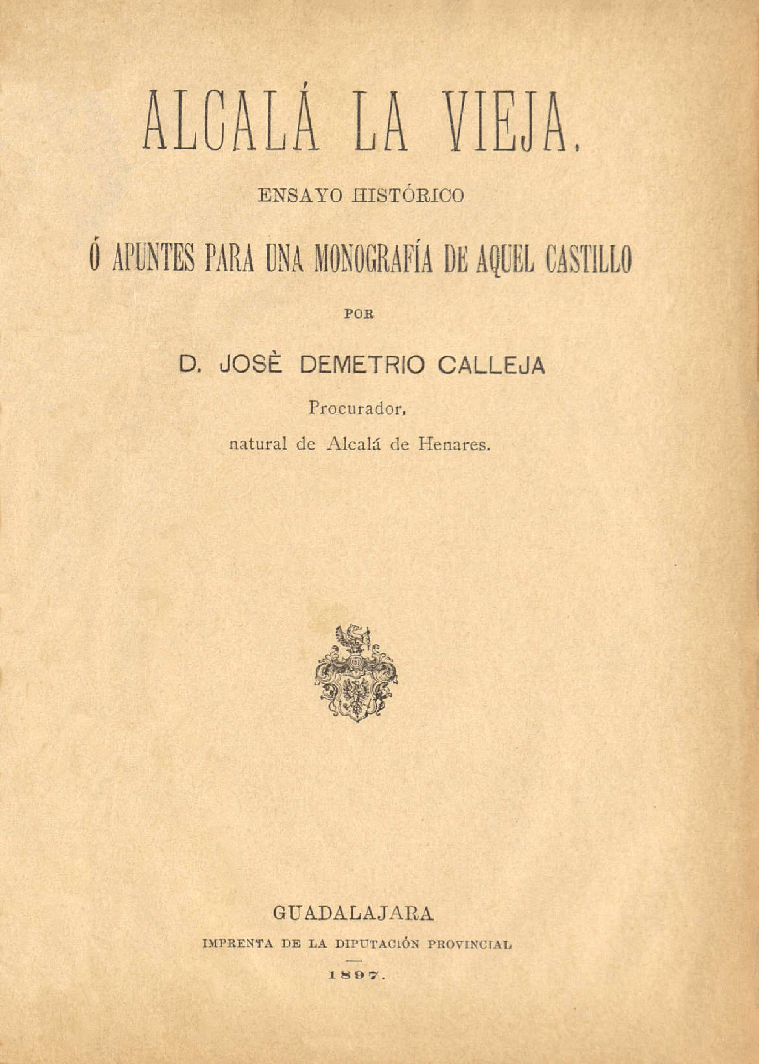 Title page of the book "Alcalá la Vieja". José Demetrio Calleja, published in 1897.